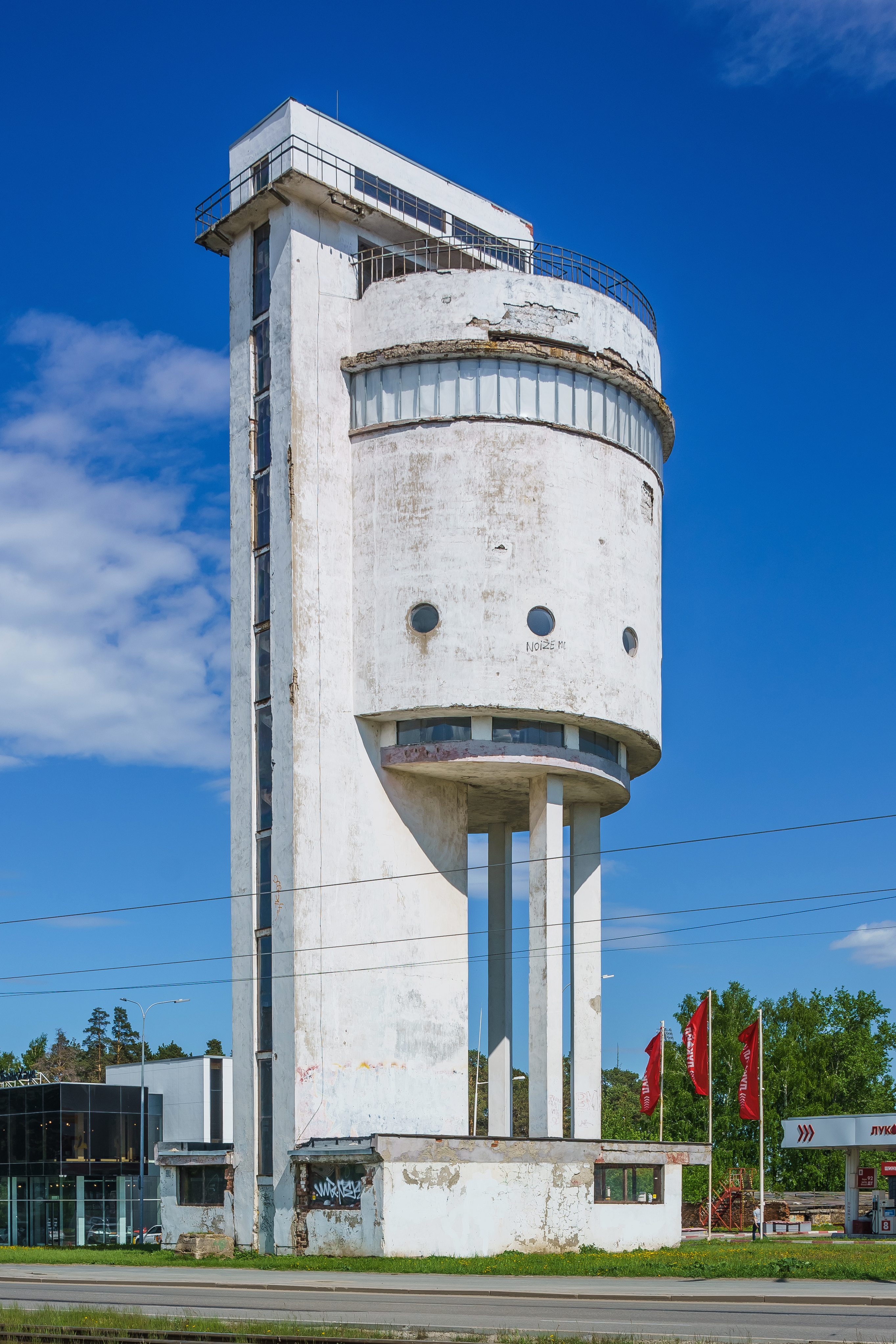 Former water tower called White Tower in Ekaterinburg, Russia